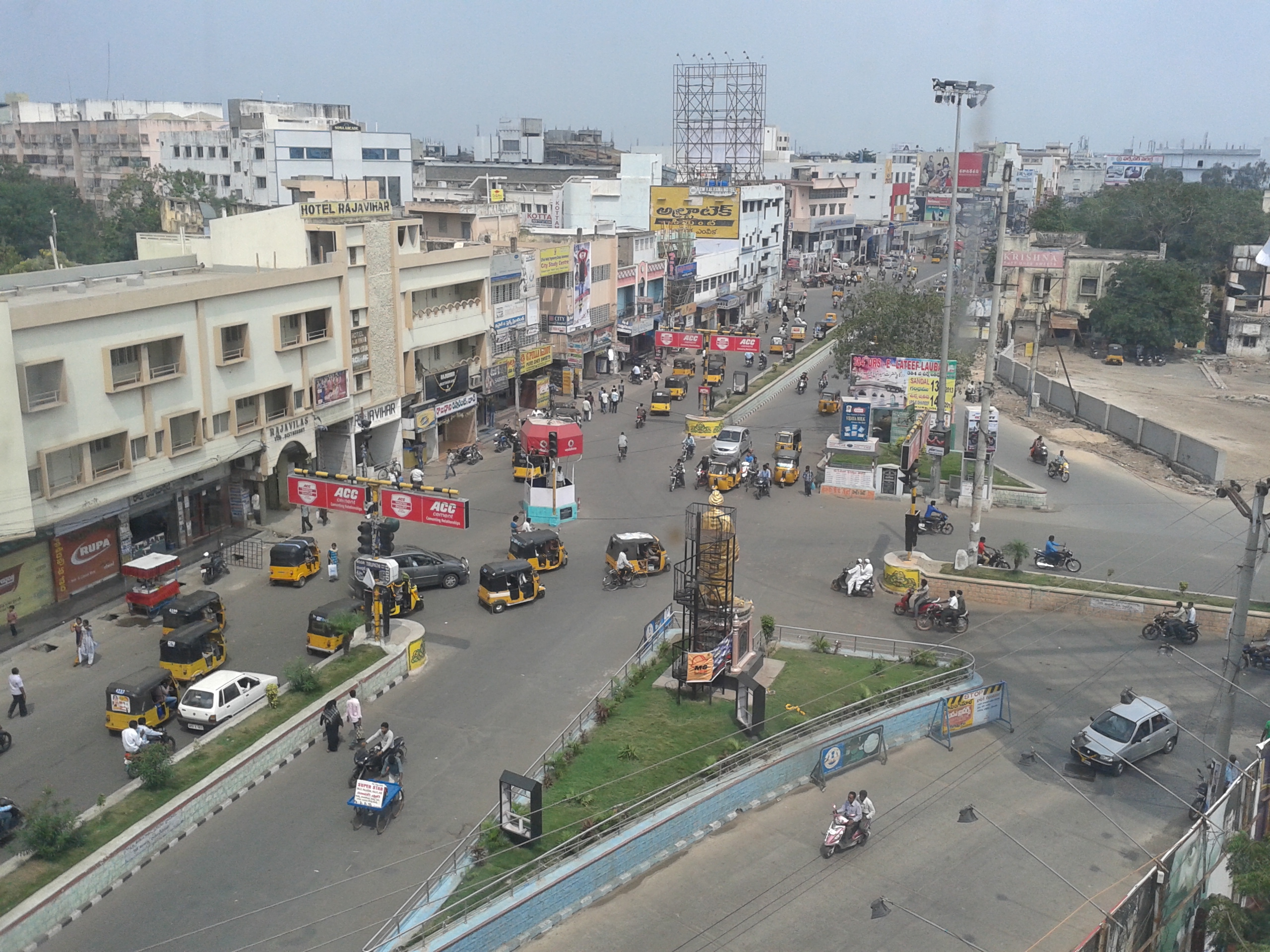 Sky Line of Kurnool City